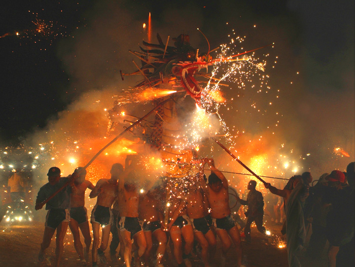 Fire dragon dance for Chinese New Year 2003 at Midnight.